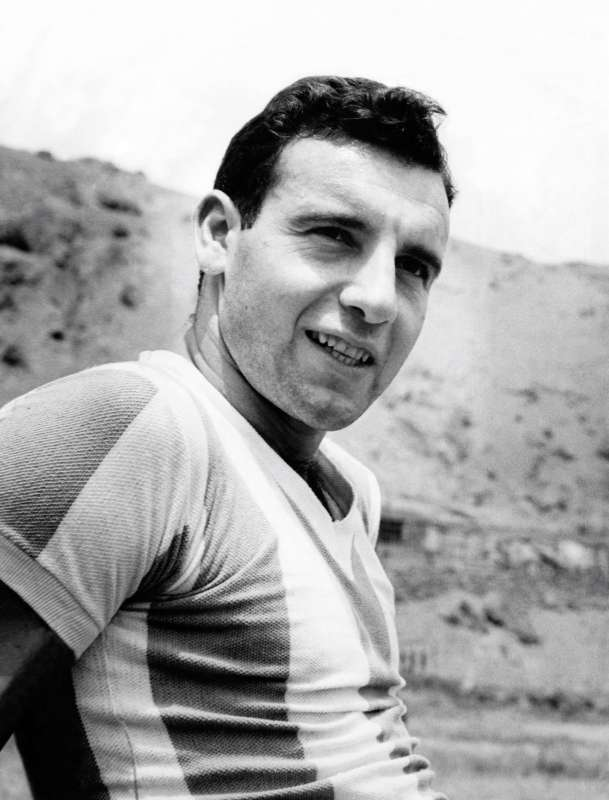 Humberto Maschio with the Argentina national team.